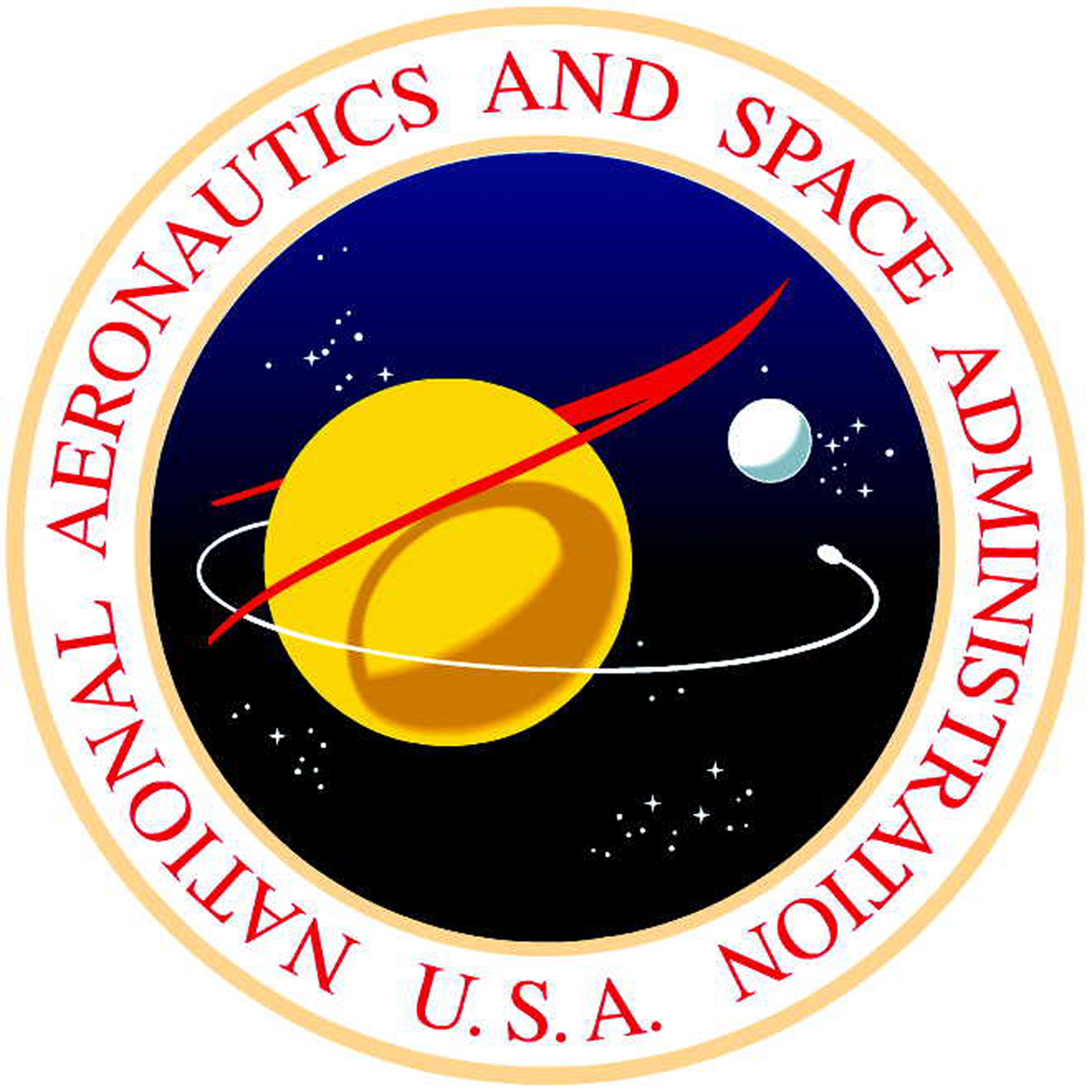 First designed in 1959, this NASA seal has commonly been known as the "meatball" logo. After an official seal was designed, this emblem proposed by James Modarelli, the head of Lewis’ Research Reports Division, was used as the more informal of the two. The sphere represents a planet, the stars symbolize space, and the red chevron signifies aeronautics (the latest design in hypersonic wings in 1959) with an orbiting spacecraft around thewing. Please see NASA "Meatball" Logo for more information.